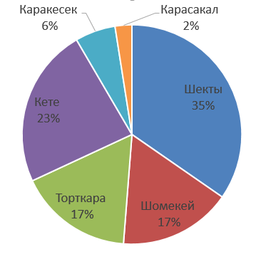 Alimuly composition at begin of 20 century